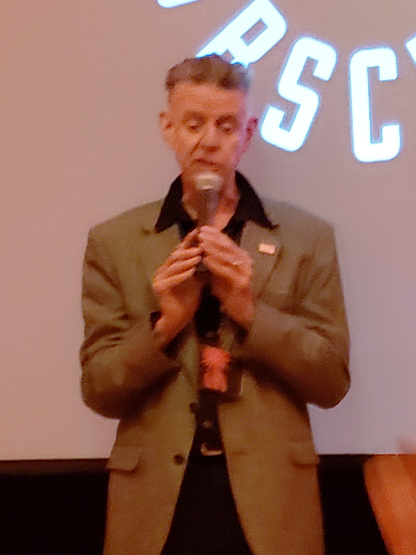 Alex Cox at a Q&A for Highway Patrolman at Hotel Petaluma in Petaluma, California, United States